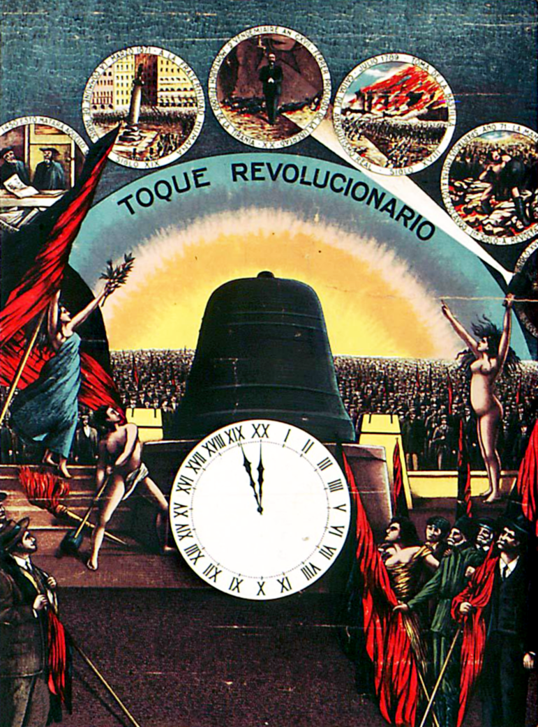 Propaganda poster of the CNT from 1930.